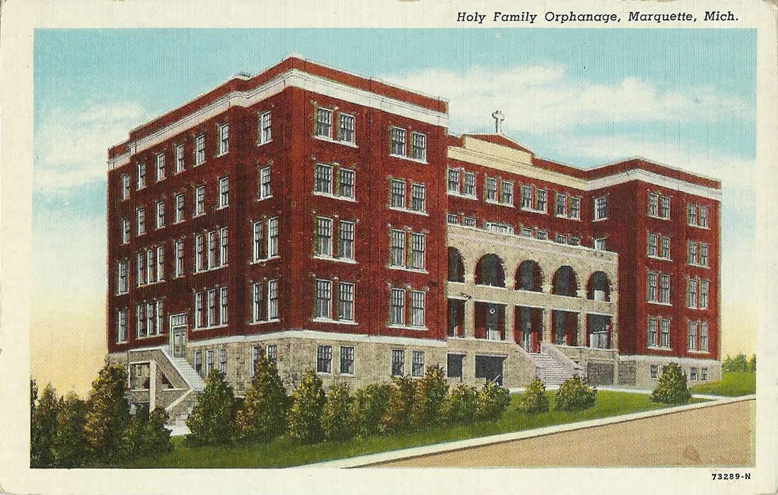 Postcard from 1917 of the Holy Family Orphanage in Marquette, Michigan.